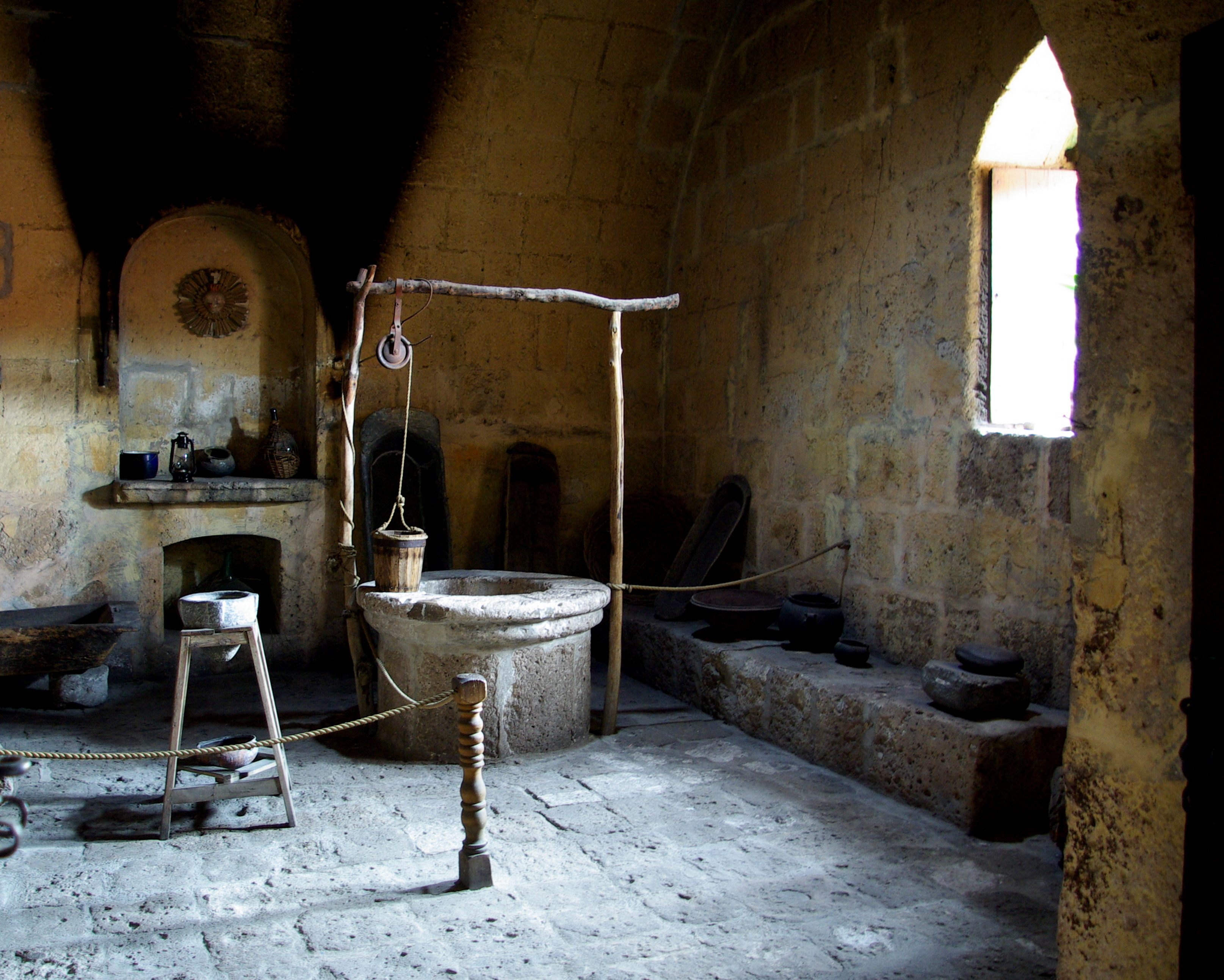 A kitchen with well, at Santa Catalina Monastery.